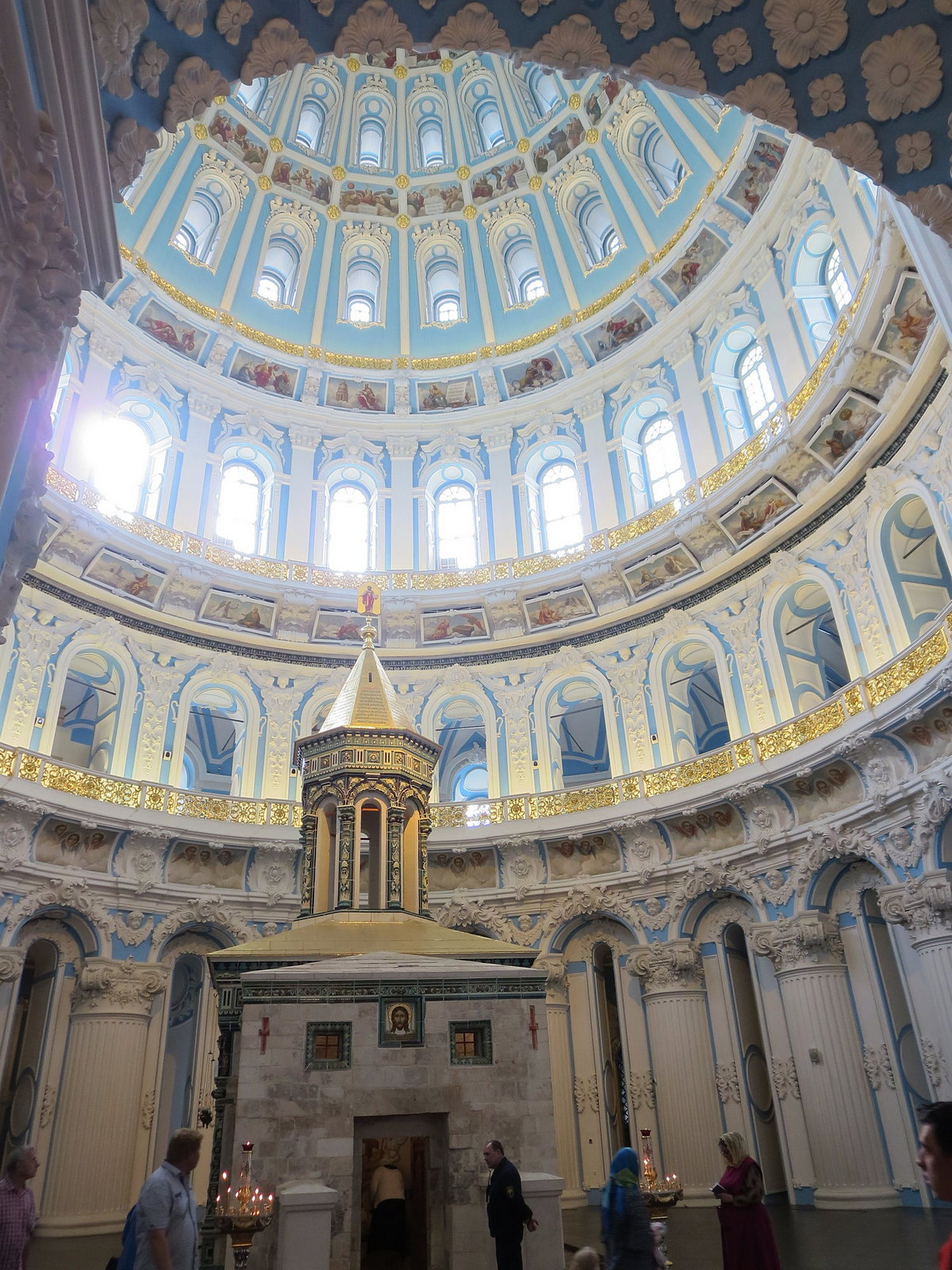 Symbolic reproduction of the Jerusalem sepulture of Christ's resurrection, inside the Voskresensky (Resurrection) or 'New Jerusalem' Monastery in Istra, near Moscow.